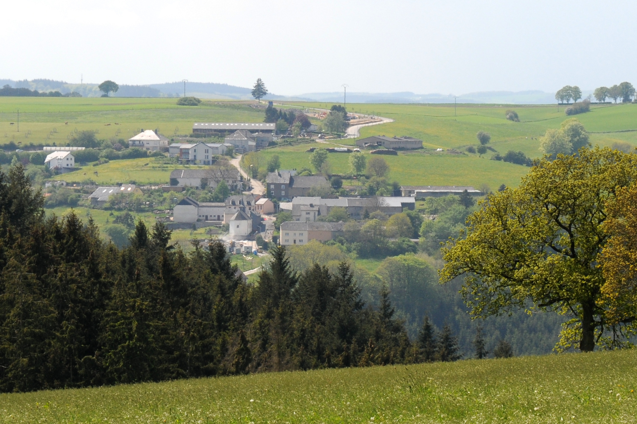 Alscheid seen from Consthum . This photograph was taken with a Nikon D300. This raster graphics image was created with Picasa